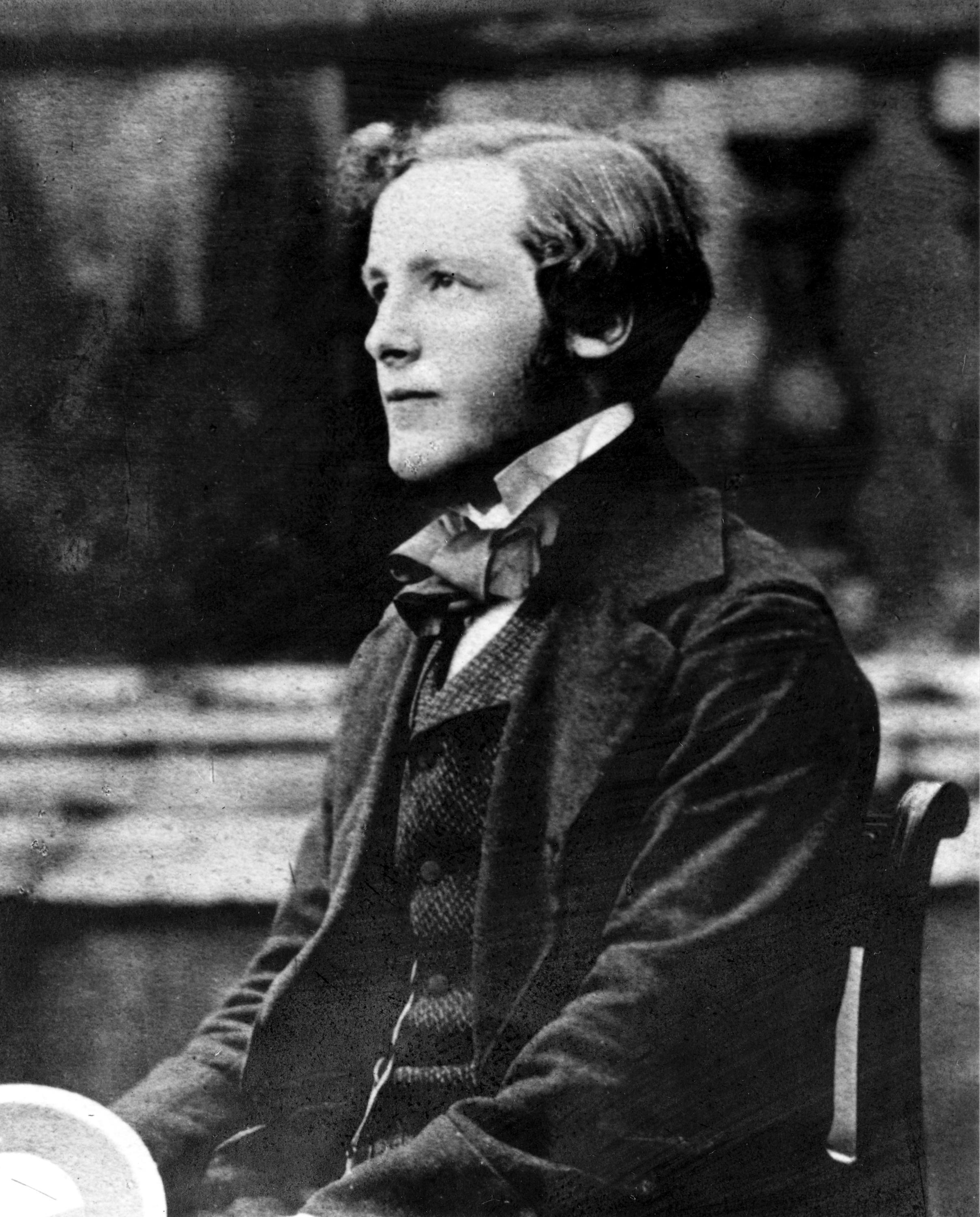 James Clerk Maxwell as a young man. Pre-1923 photograph (he died 1879)